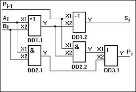 ggg